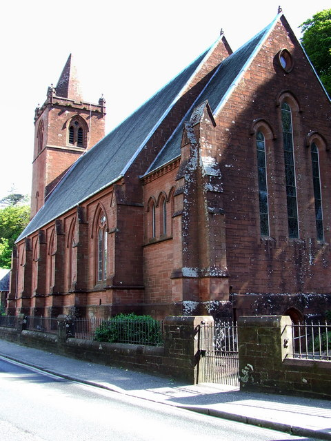 Skelmorlie and Wemyss Bay Parish Church Church of Scotland by the A78 in Skelmorlie.